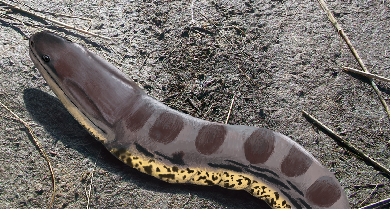 Life restoration of Coloraderpeton brilli. Based on Figure 3 of "Cranial anatomy of Coloraderpeton brilli, postcranial anatomy of Oestocephalus amphiuminus, and reconsideration of Ophiderpetontidae (Tetrapoda: Lepospondyli: Aistopoda)" by Jason S. Anderson (Journal of Vertebrate Paleontology 23(3):532-543).